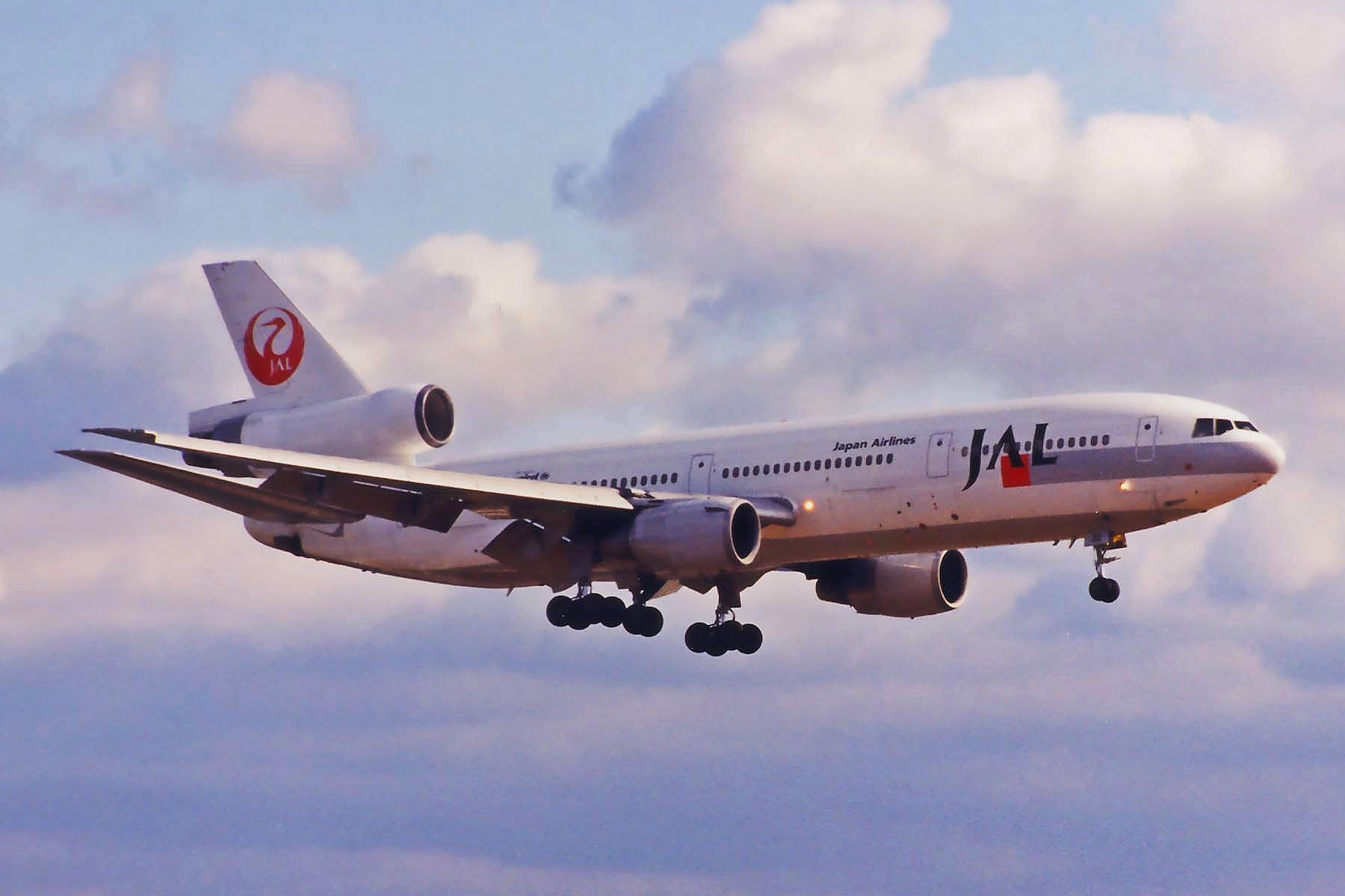 This DC-10-40I was converted from DC-10-40D in 1994.